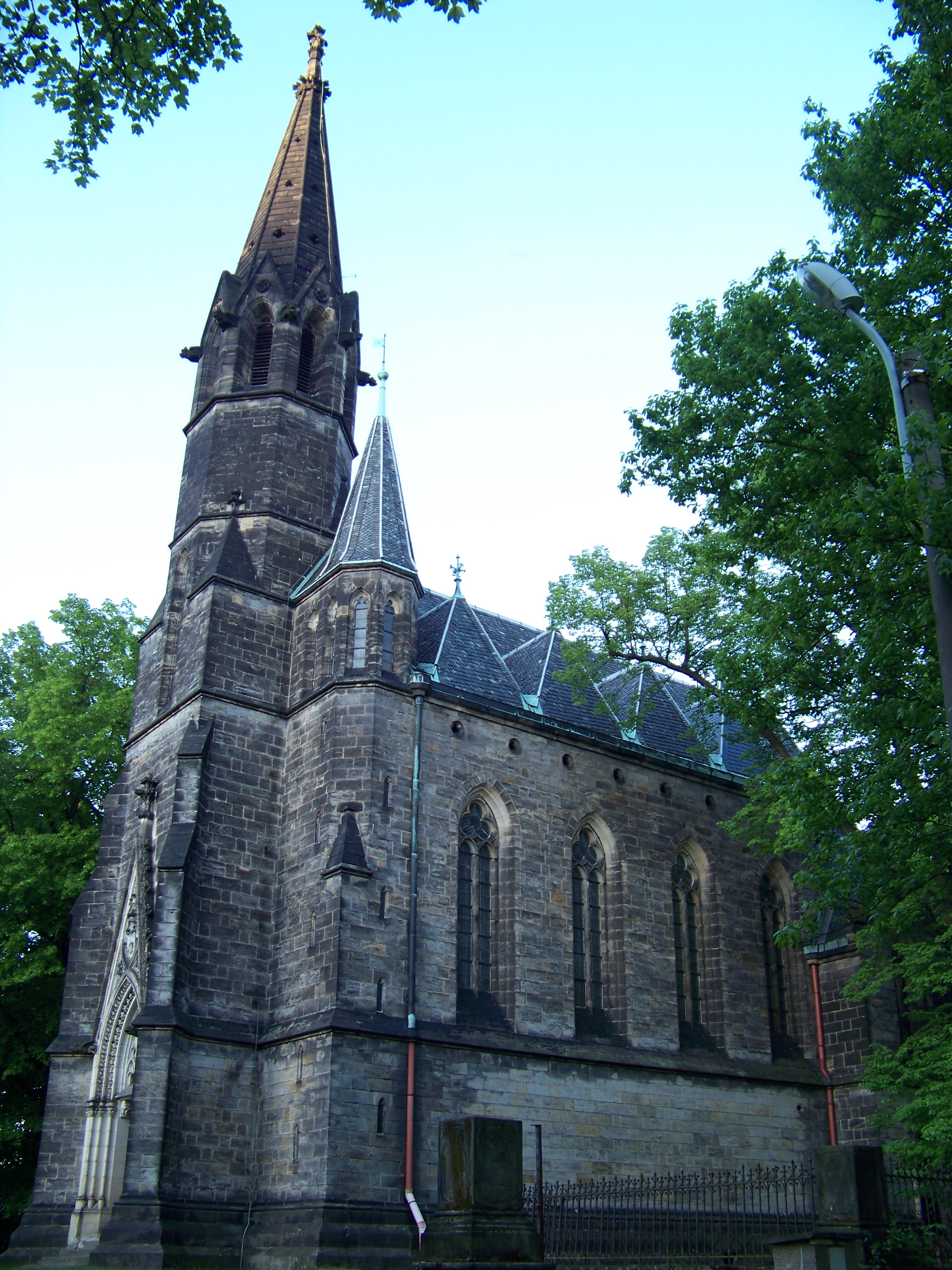 Děčín VI-Letná, Děčín District, Ústí nad Labem Region, Czech Republic. U Kaple street, chapel of Saint John of Nepomuk.